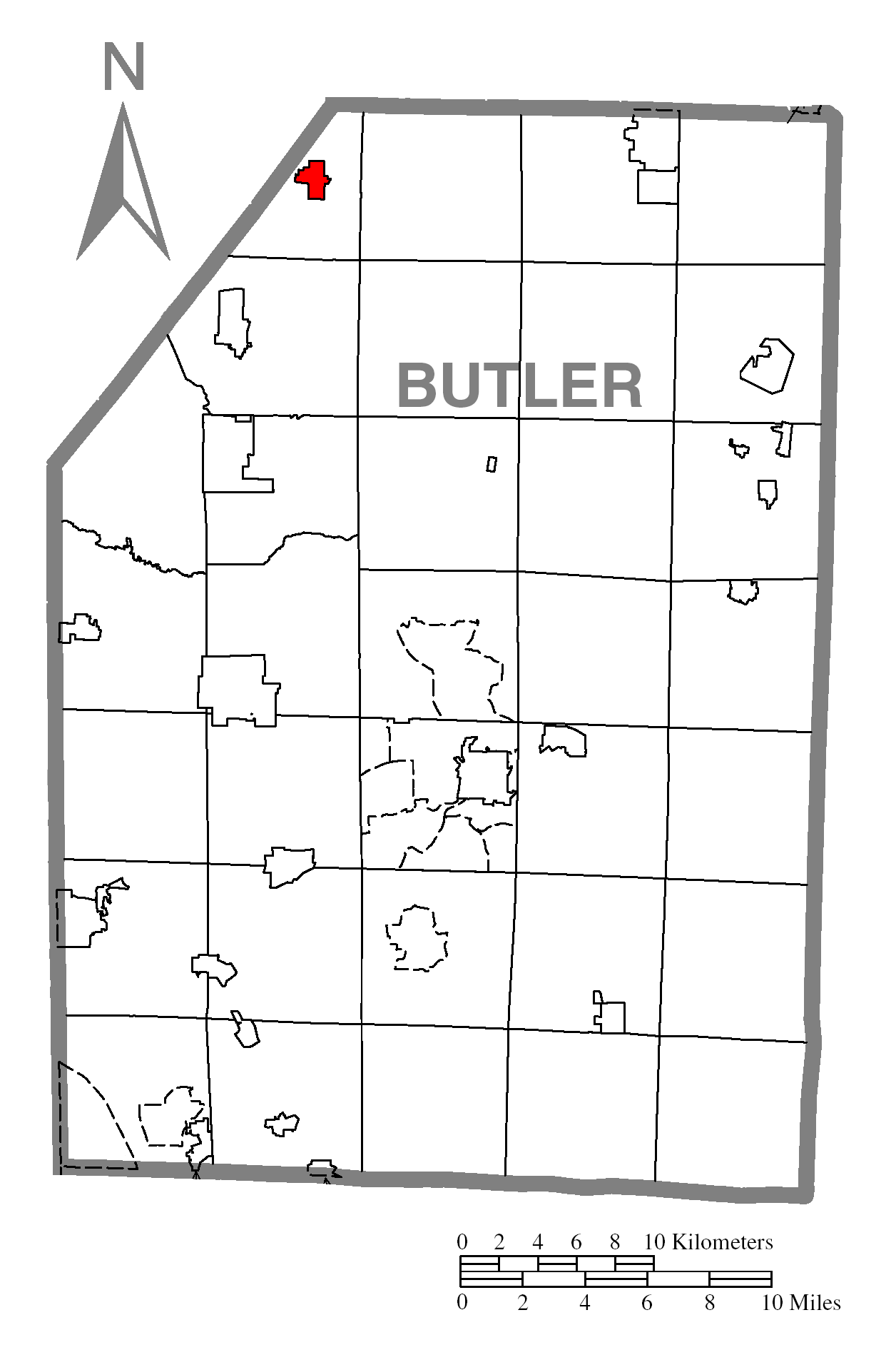 A map of Butler County showing Harrisville, Pennsylvania (alternate) highlighted on the map.